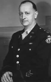 1945 US Army photograph Col. WS Middleton